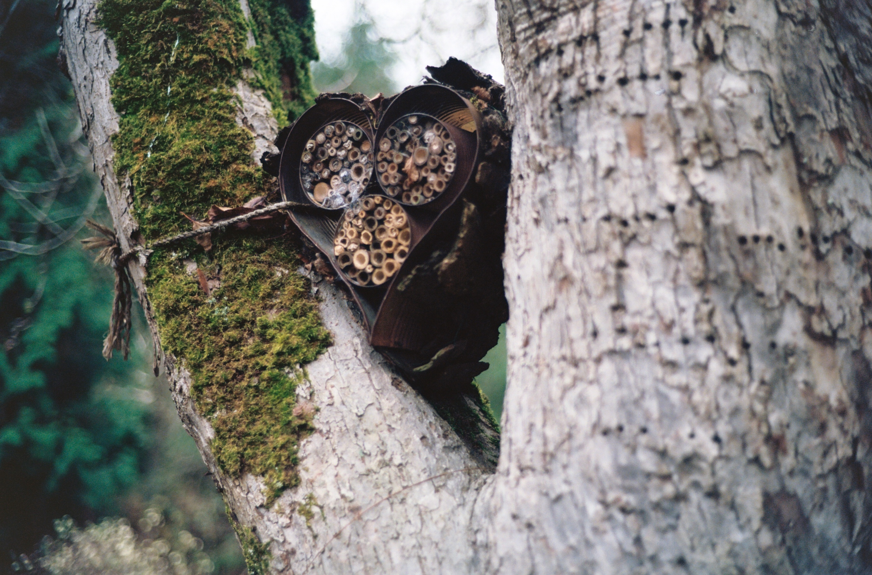 Heart shaped mason bee house[1] in drilled apple tree Piper Orchard, Seattle, Washington.